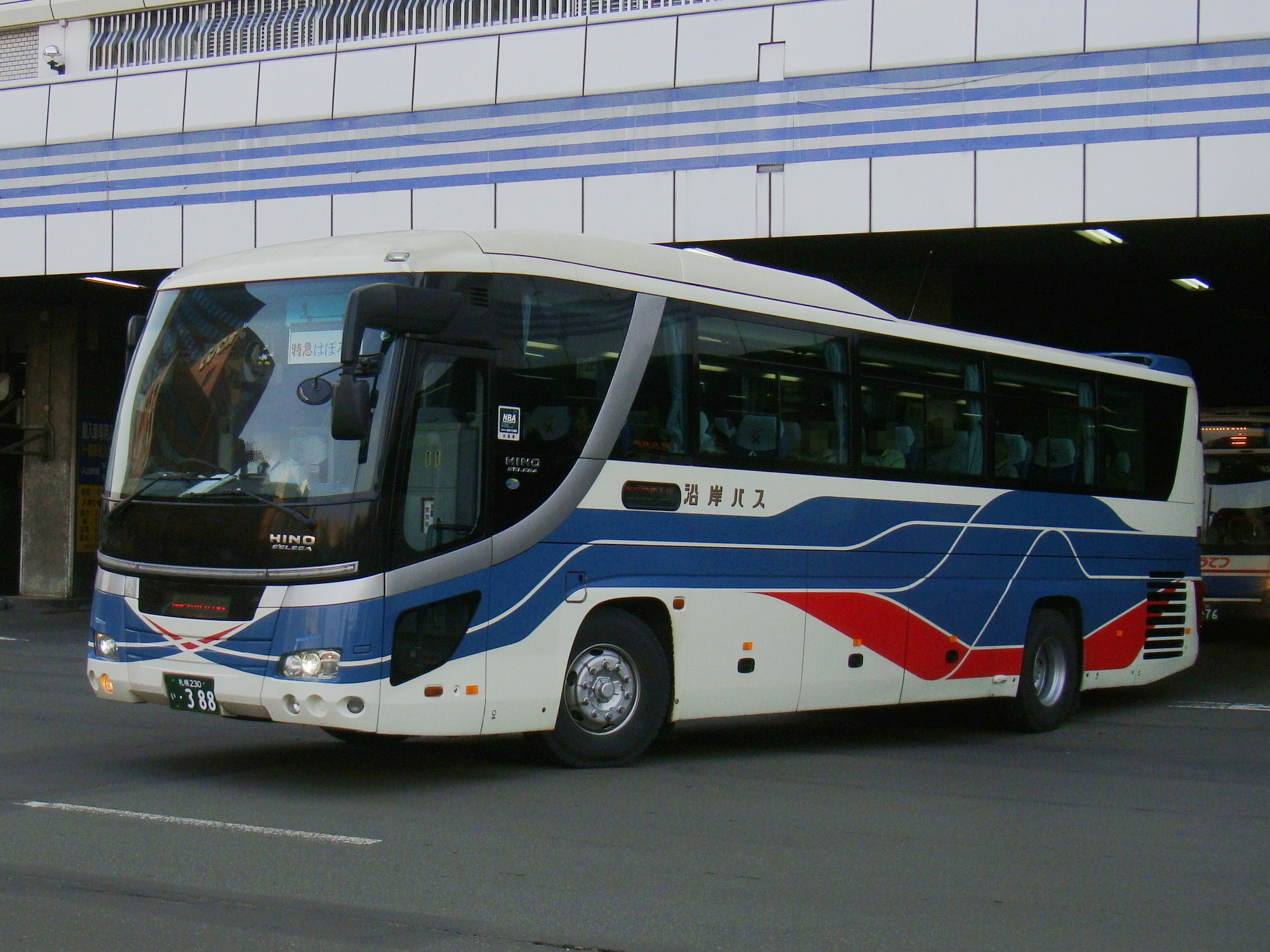 "Tokkyū Haboro gō" Sapporo to Haboro